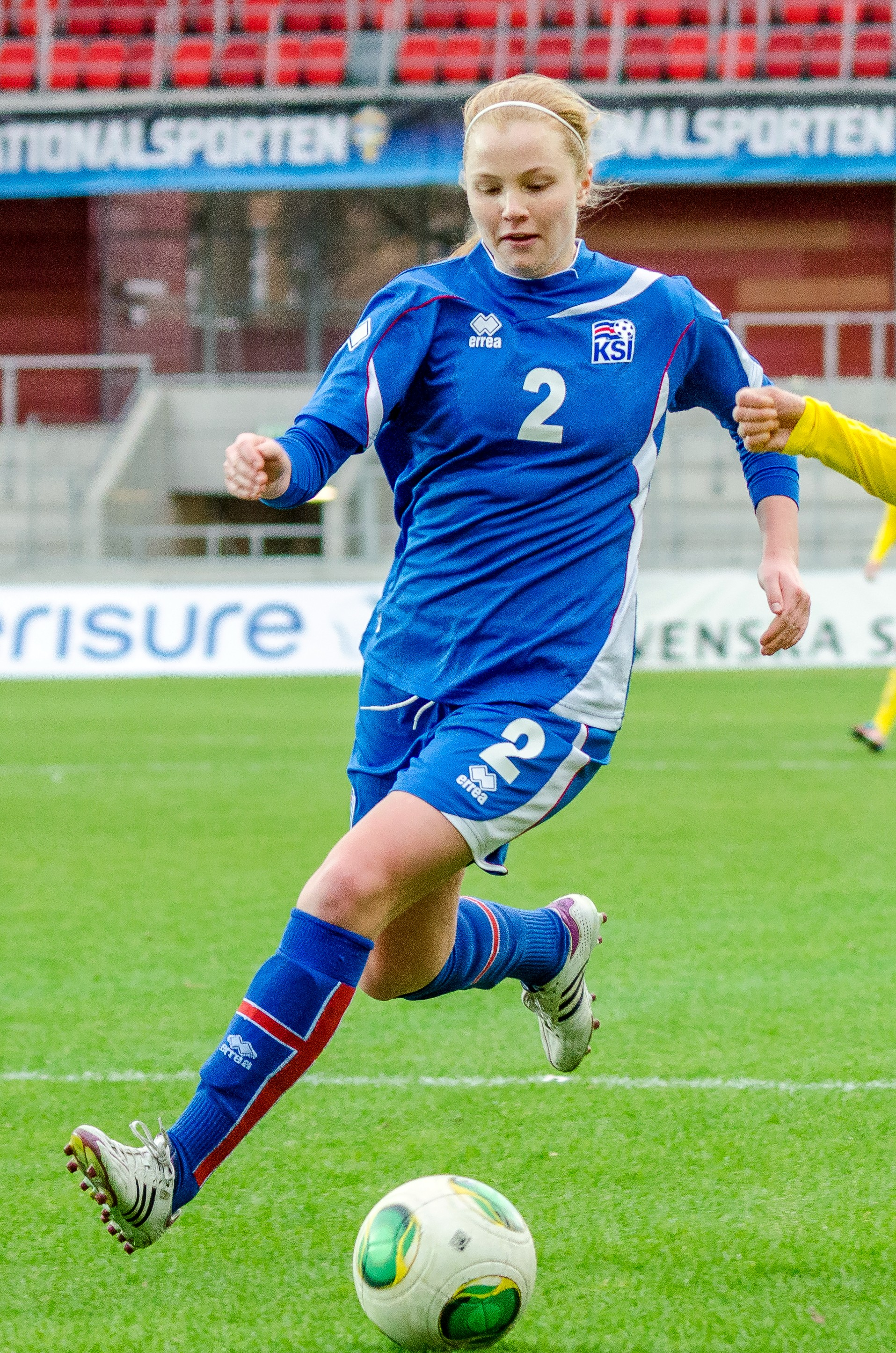 Icelandic footballer Glódís Viggósdóttir playing an international friendly against Sweden at Myresjöhus Arena in Växjö, 6 April 2013.